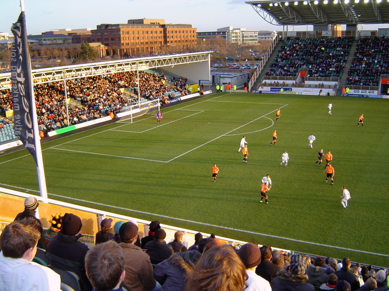 Milton Keynes Dons at the National Hockey Stadium, Milton Keynes, near to Bradwell, Milton Keynes, Great Britain. The 'Dons' played at the Hockey stadium before moving to their new ground. The game is between MK Dons and Blackpool, the Dons winning 3.1.